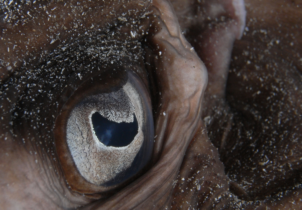 Eye of a round fantail stingray (Taeniura grabata)